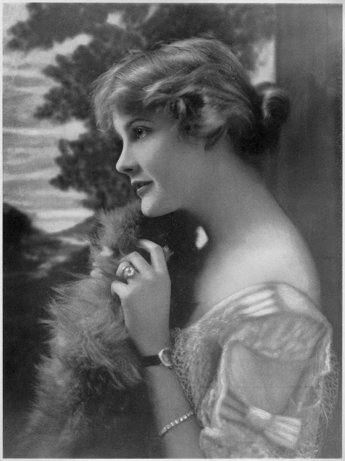 Jeanne Eagels in Disraeli as Lady Clarissa Pevensey.